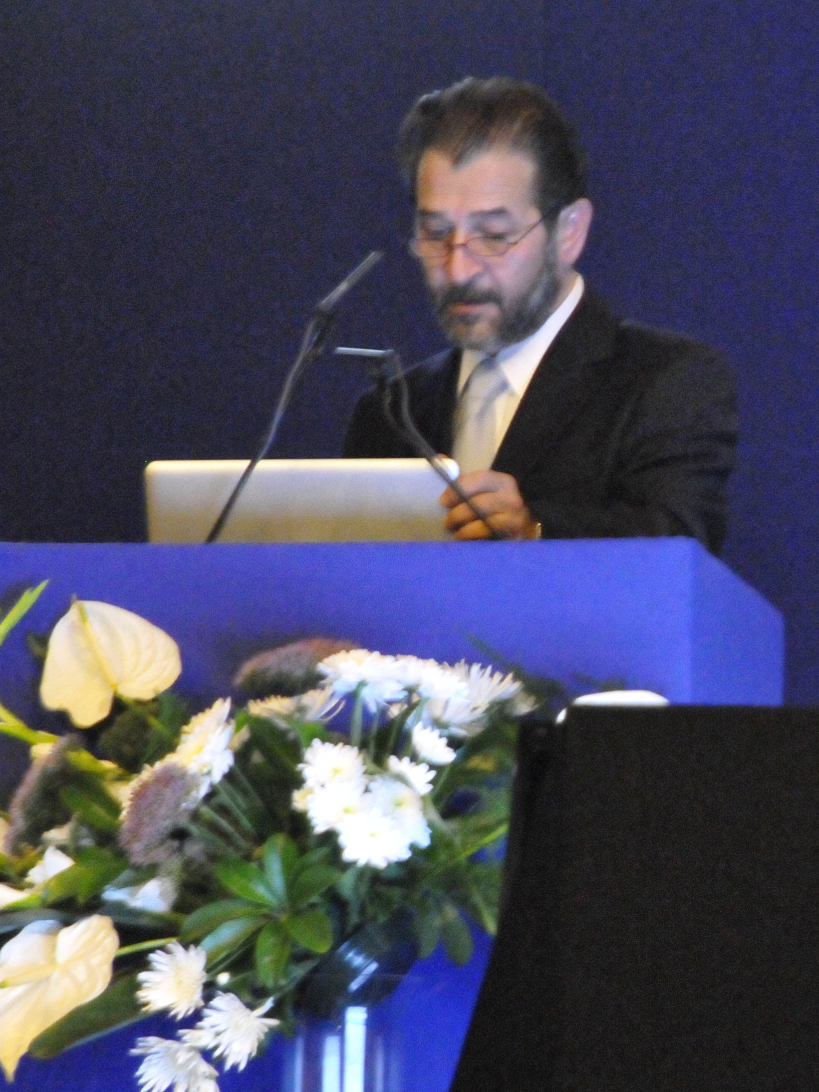 Kypros Nicolaides at the Fetal Medicine Foundation World Congress in Malta.